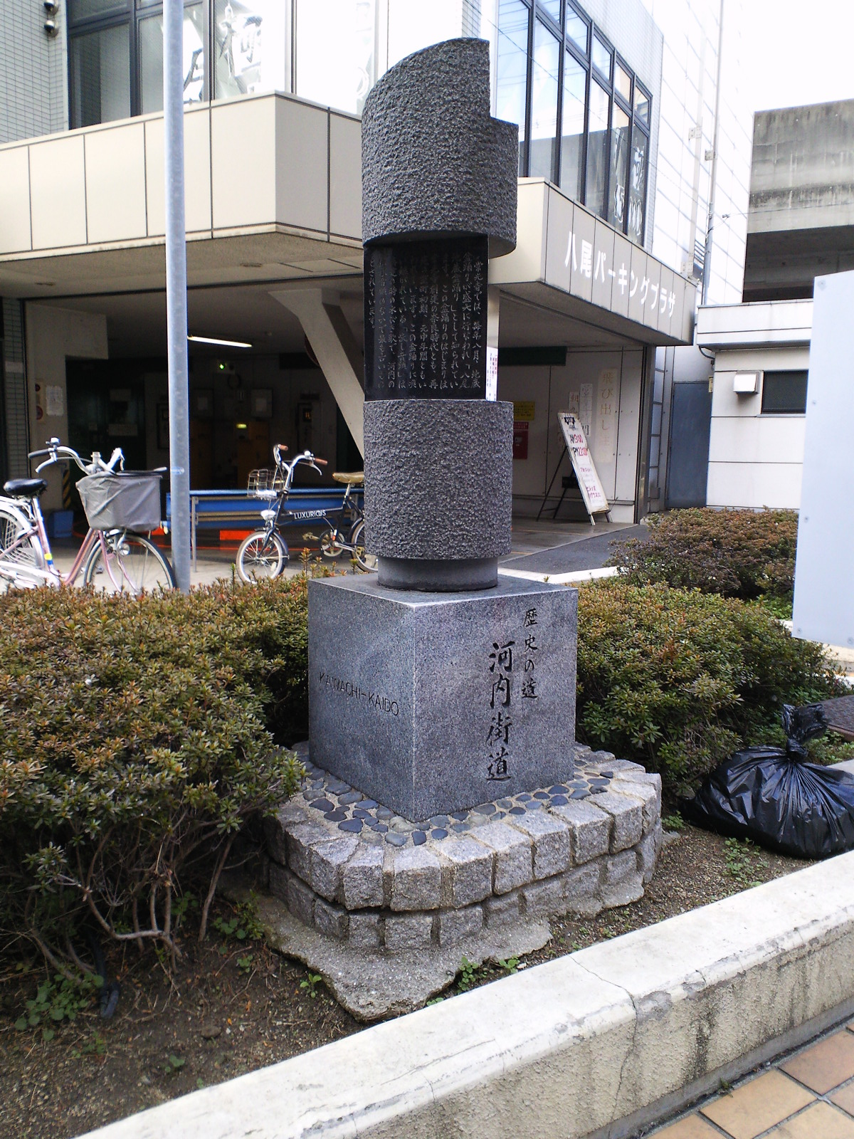 Kawachi Kaido (Road), Yao, Osaka, Japan